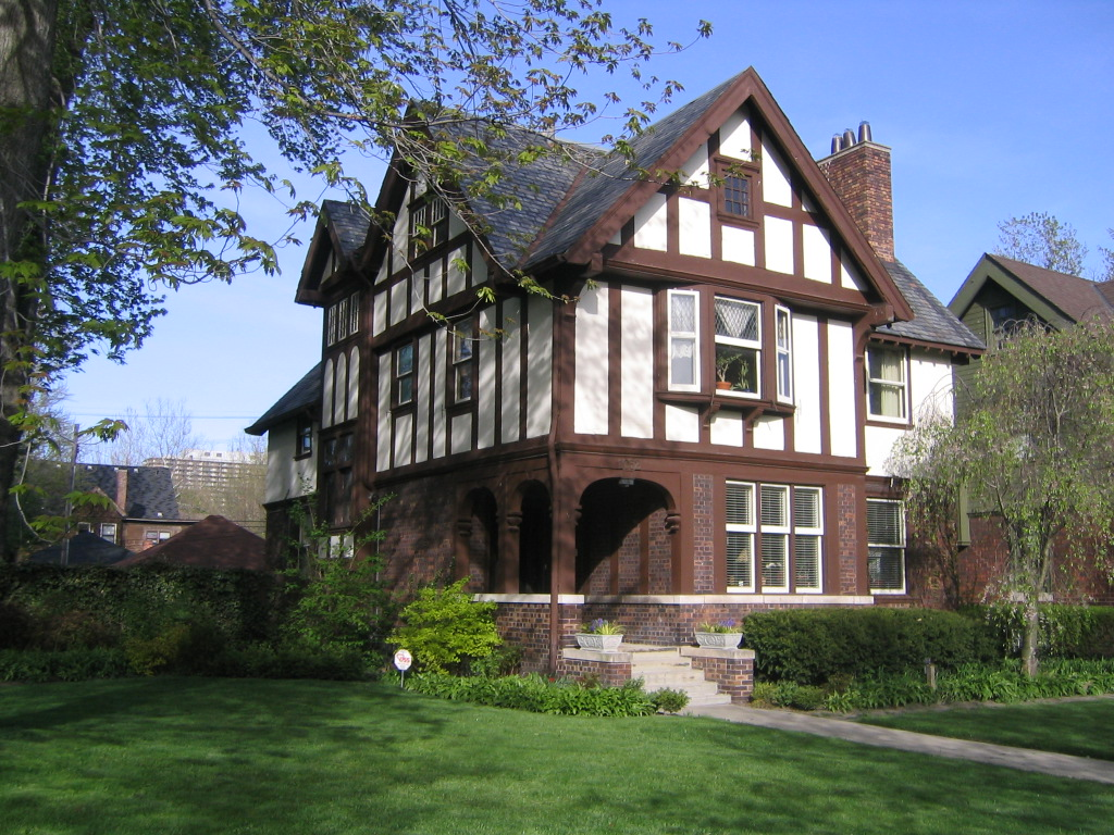 1052 Seminole in Detroit's historic Indian Village Historic District was the home of Henry Leland, founder of Cadillac and Lincoln.